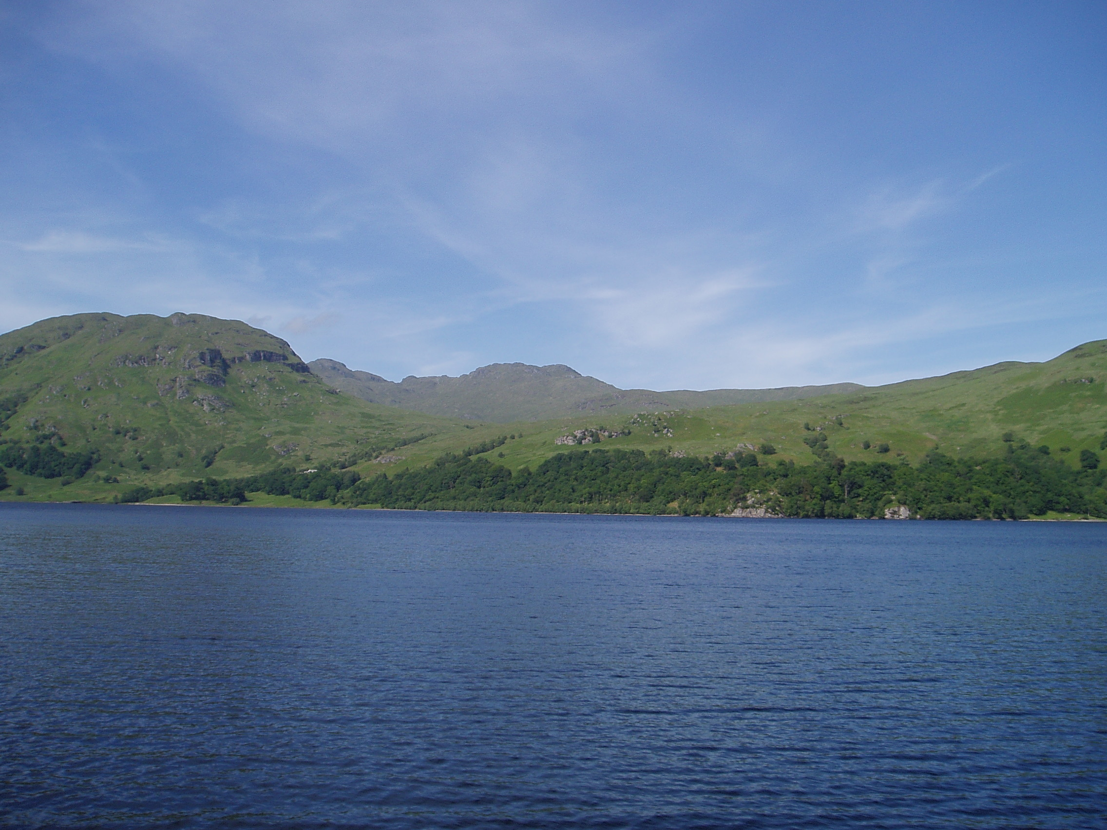 A' Chruinn-bheinn / Cruinn Bheinn seen from Loch Katrine with A Bheinn Mheadheanach / Beinn Meadhonach and Am Meall Gaothach / Meall Gaothach to the right.